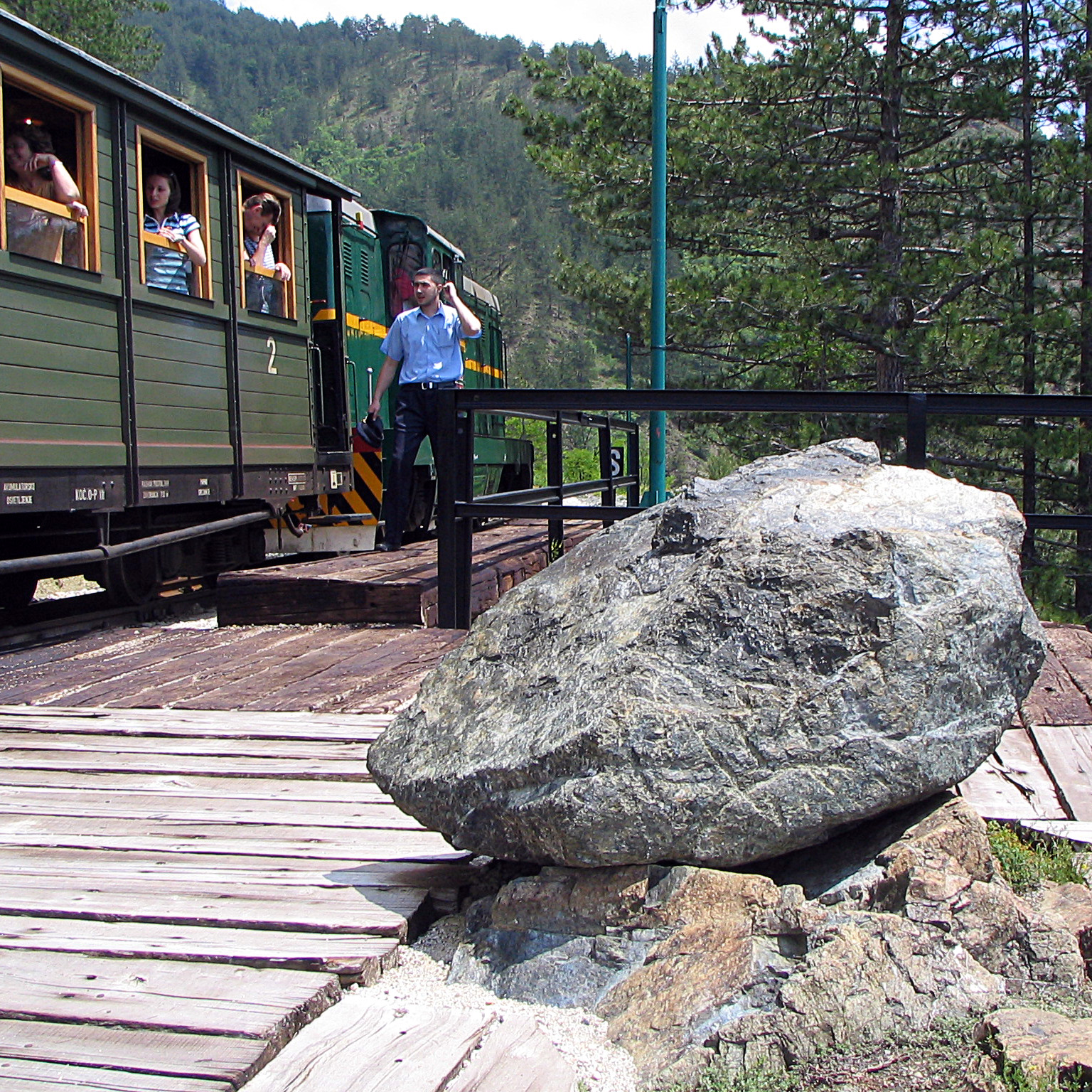 Crazy Stone, Šargan Eight, Serbia